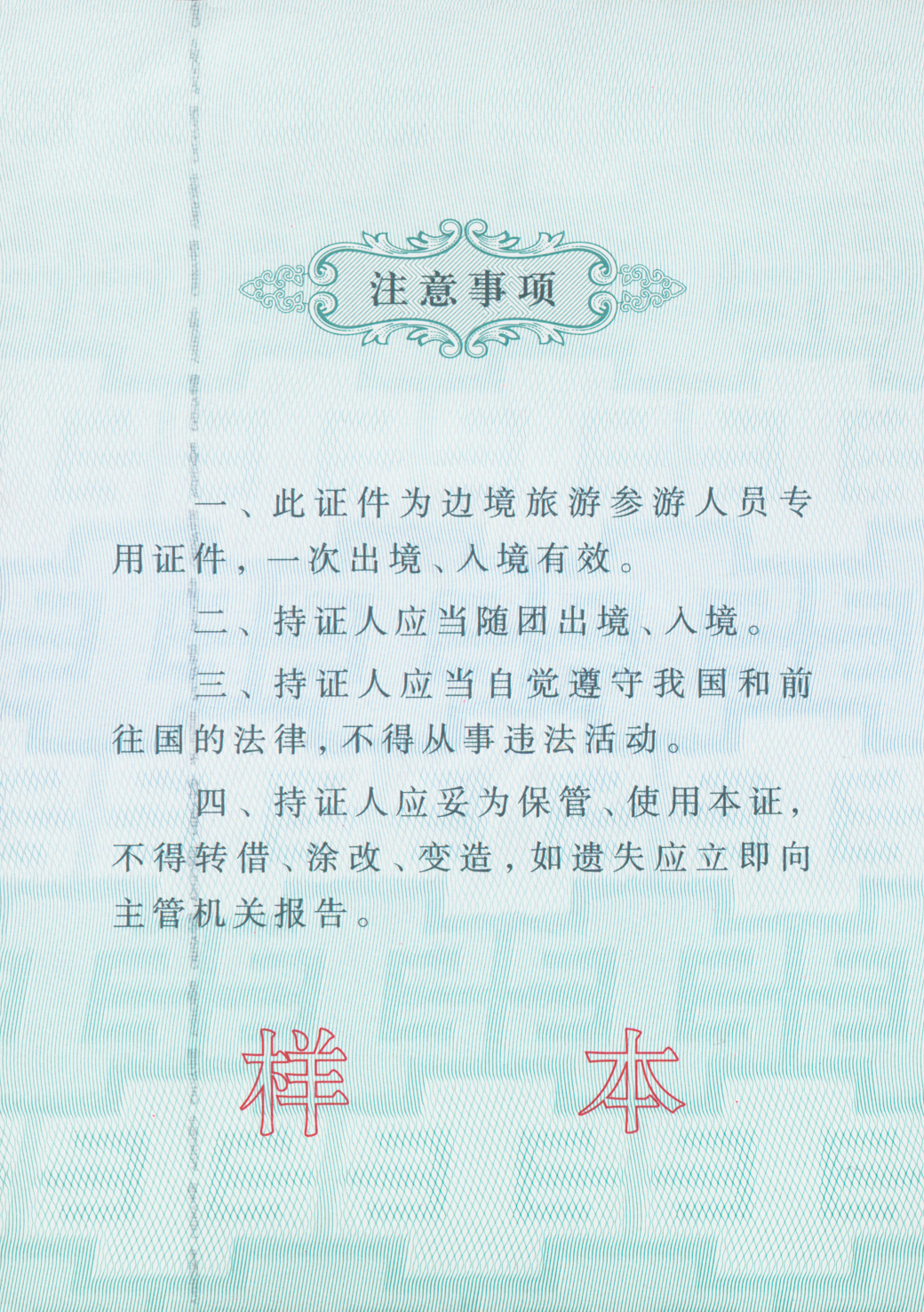 Note Page of People's Republic of China Exit and Entry Permit For Border Tourist Only